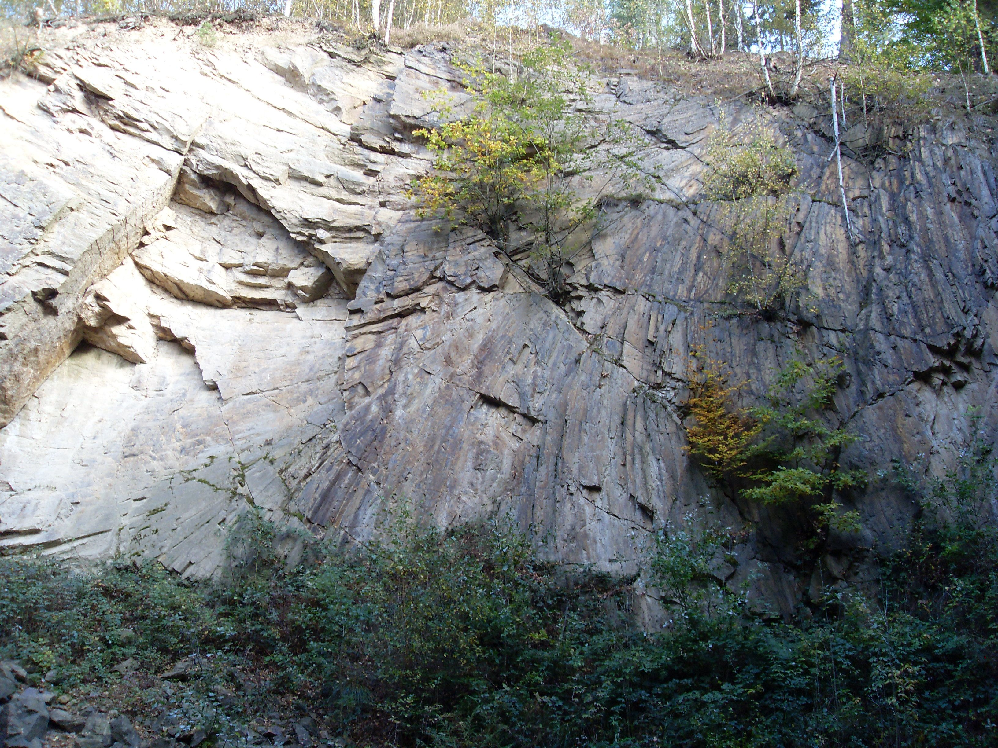 Porphyrfächer (Ignimbrite) in the Tharandter Wald (Tharandt Forest)